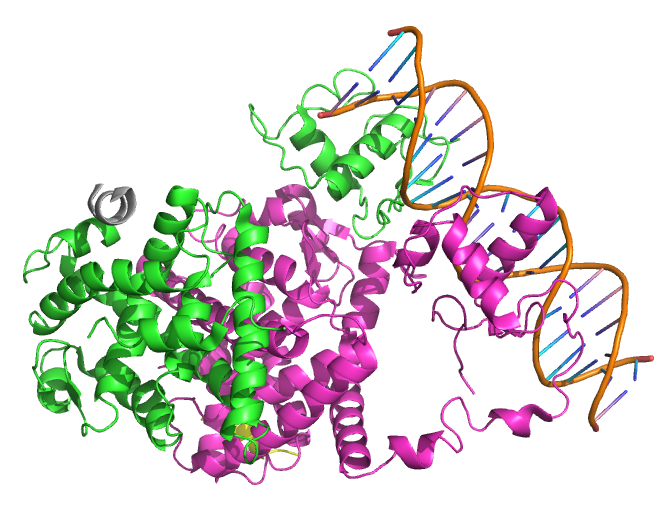 Structure of the PPAR-gamma receptor bound to DNA